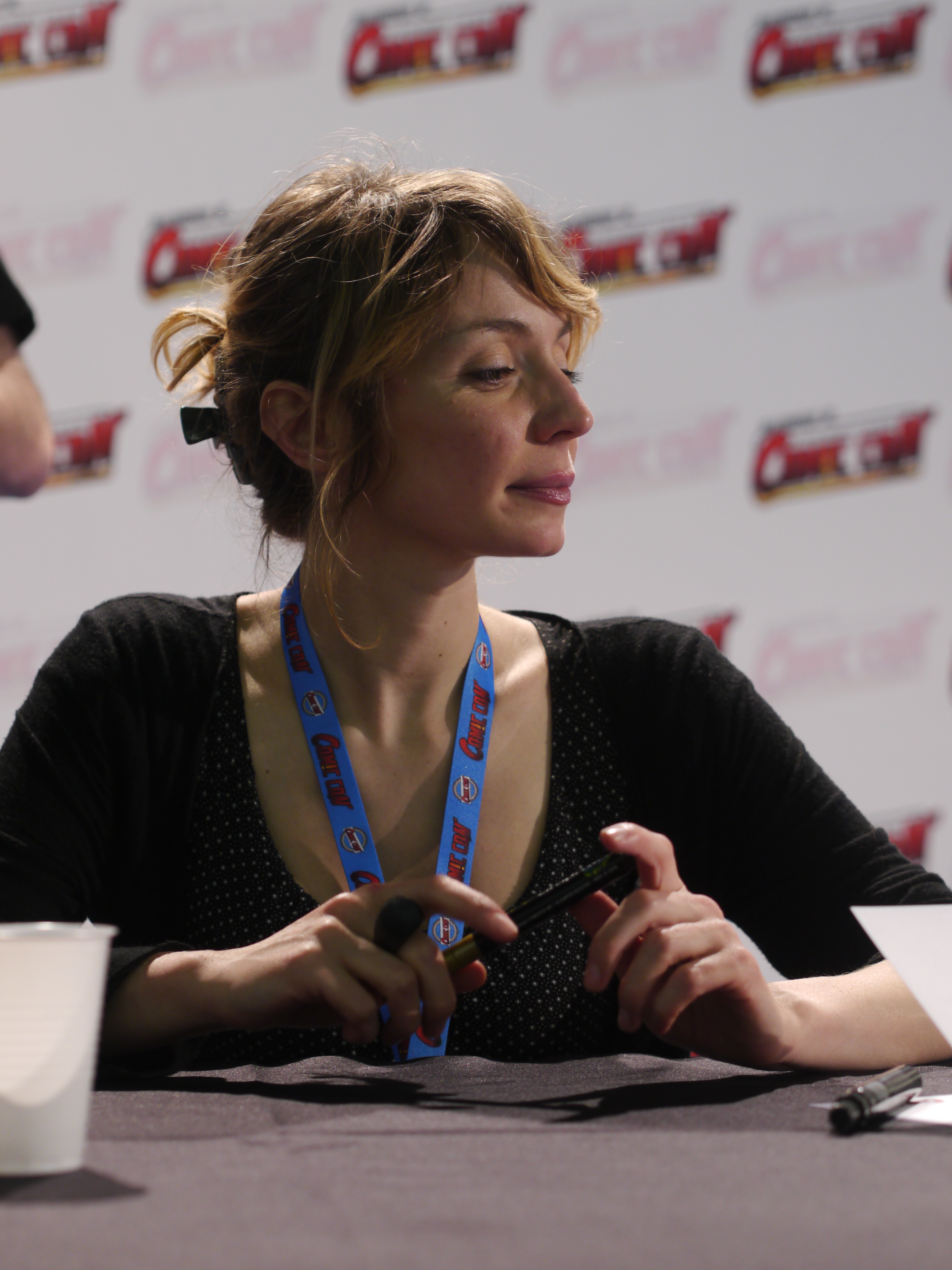 Japan Expo Festival, 14th impact